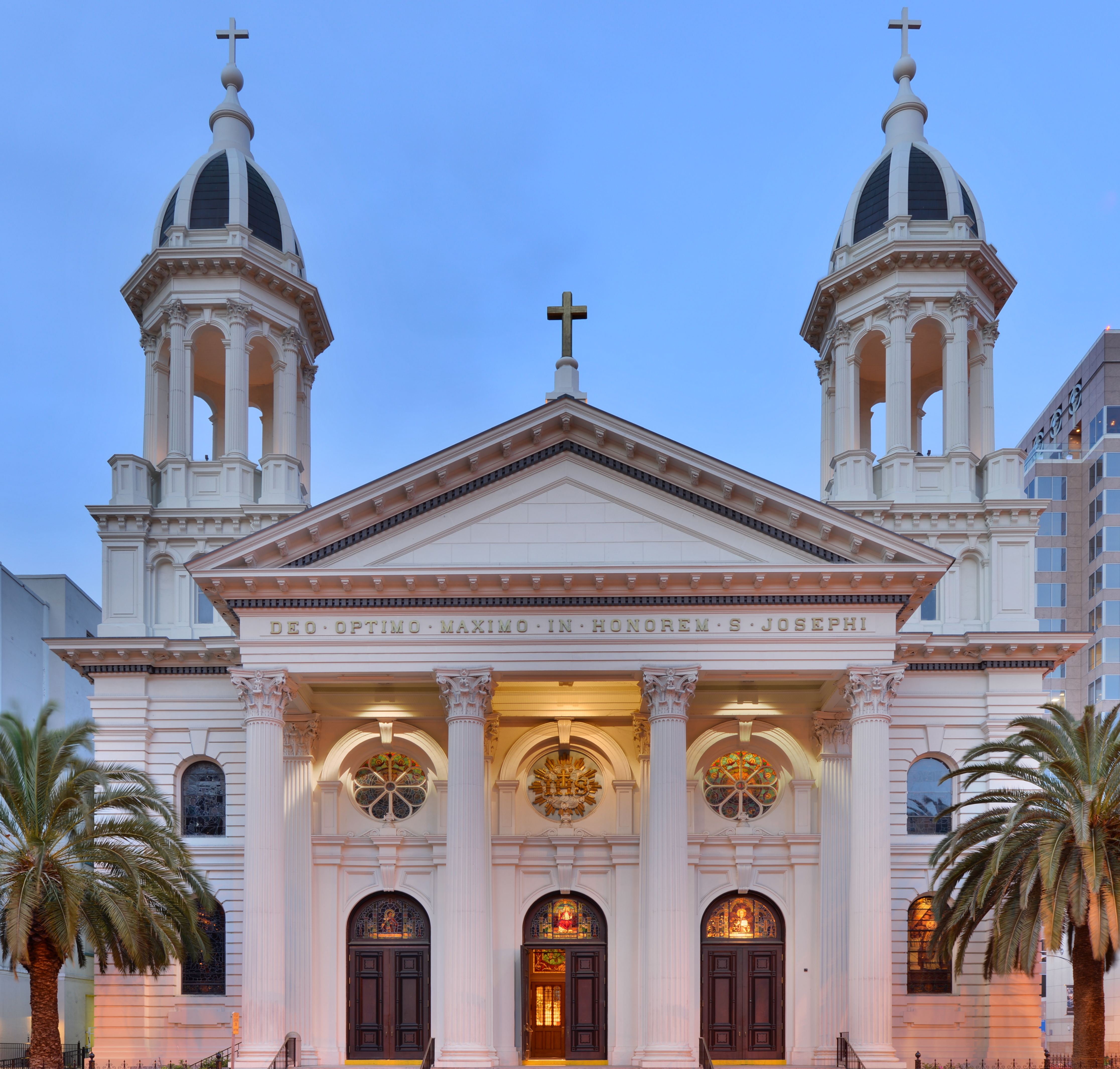 Cathedral Basilica of St. Joseph (San Jose, California) exterior at dusk